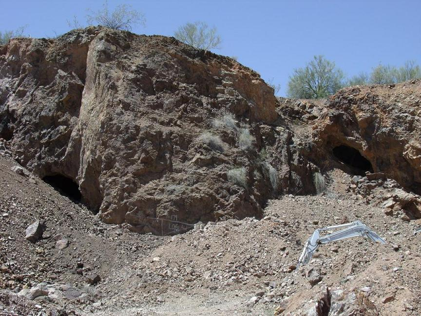 In 1863, after Henry Wickenburg discovered the Vulture Mine, Vulture City a small mining town was established in the area. The town once had a population of 5,000 citizens After the mine closed the city was deserted and became a “ghost town”. The mine and the ghost town are now a tourist attraction in Wickenberg, Arizona. The image is of the Vulture Mine and Vulture Mountain and caves.